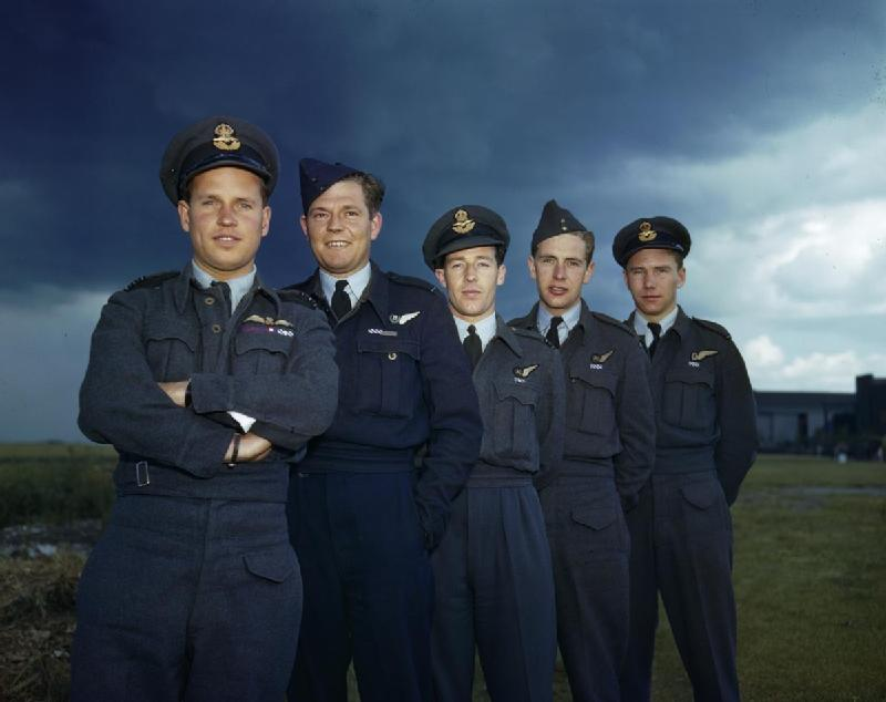 Wing Commander Guy Gibson, Vc, Dso and Bar, Dfc and Bar, Commander of 617 Squadron (dambusters) at Scampton, Lincolnshire, 22 July 1943 Wing Commander Guy Gibson with members of his crew. Left to right: Wing Commander Guy Gibson, VC, DSO and Bar, DFC and Bar; Pilot Officer P M Spafford, bomb aimer; Flight Lieutenant R E G Hutchinson, wireless operator; Pilot Officer G A Deering and Flying Officer H T Taerum, gunners.